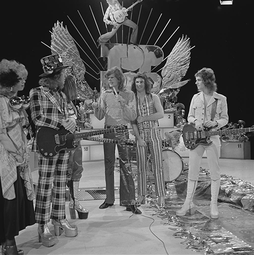 Slade in AVRO's TopPop (Dutch television show) in 1973